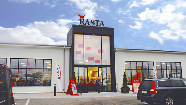 Rasta i Värnamo, Swedish restaurant